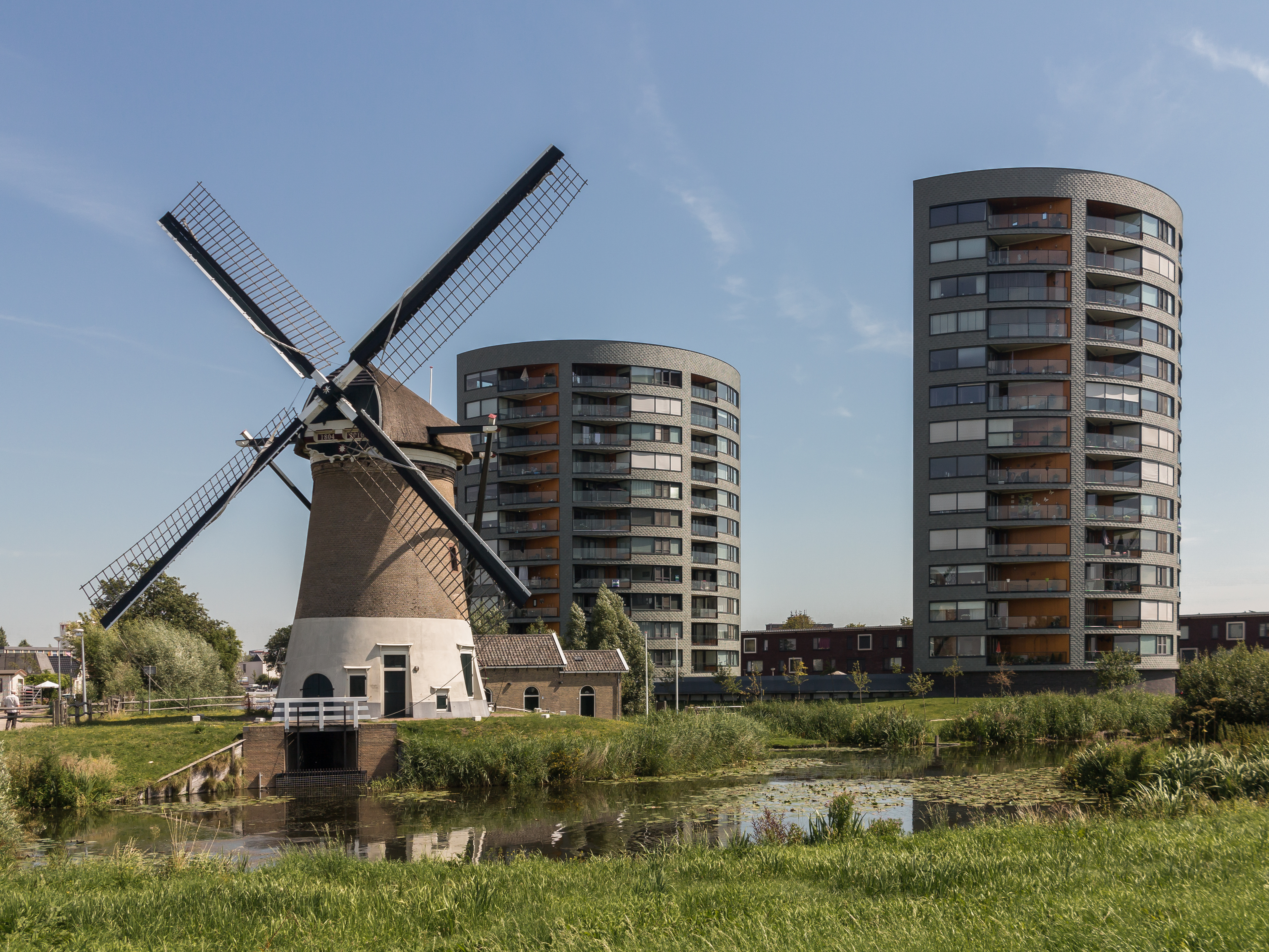 Gouda, windmill: de Mallemolen